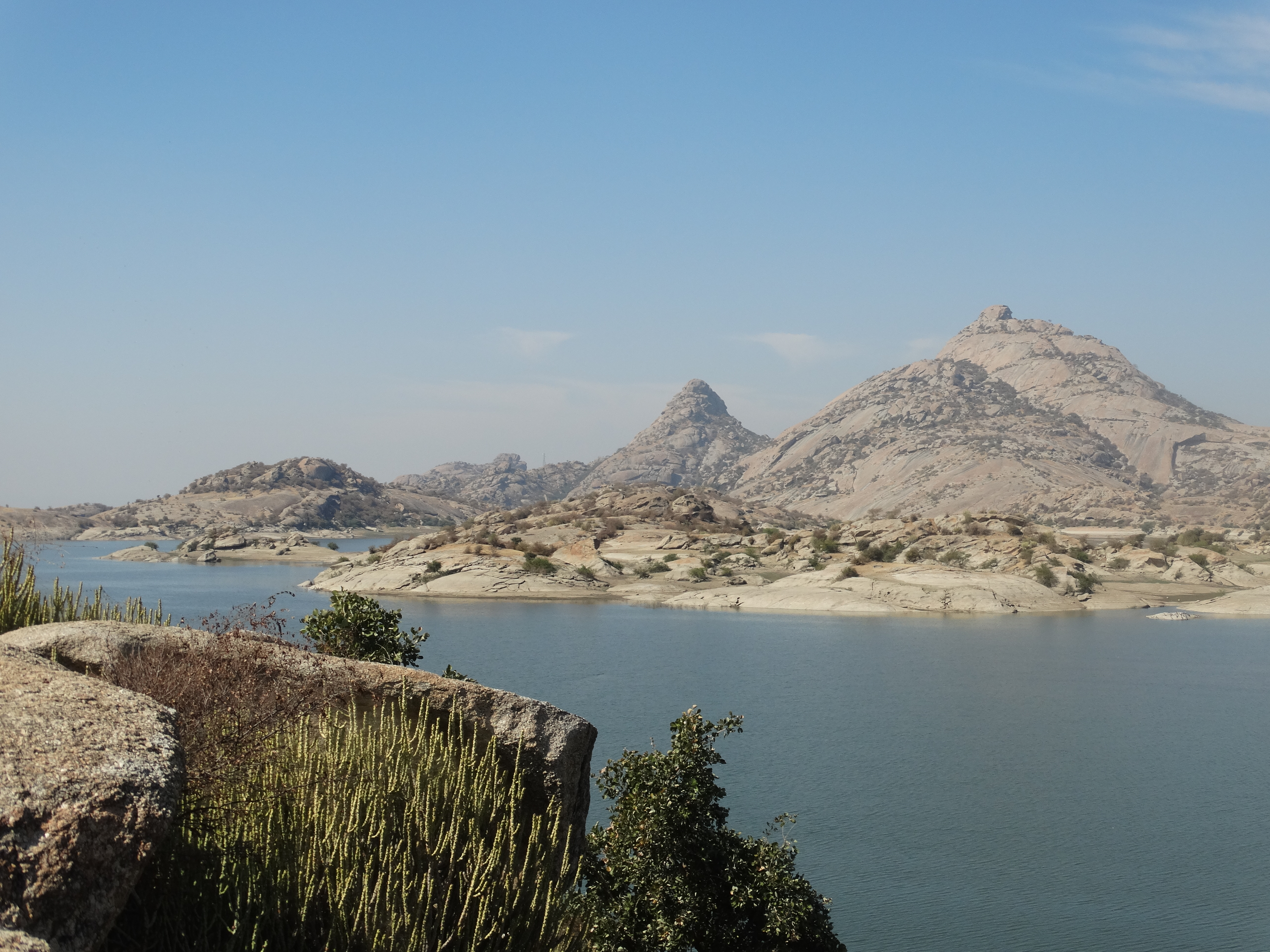 Jawai being famously known as Jawai dam is more than just a dam. The picturesque and beautiful view can give you goosebumps.